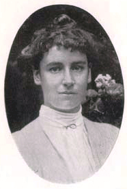 Alice Norah Gertrude Greene (1879-1956), English tennis player, silver medalist at the 1908 Olympic games